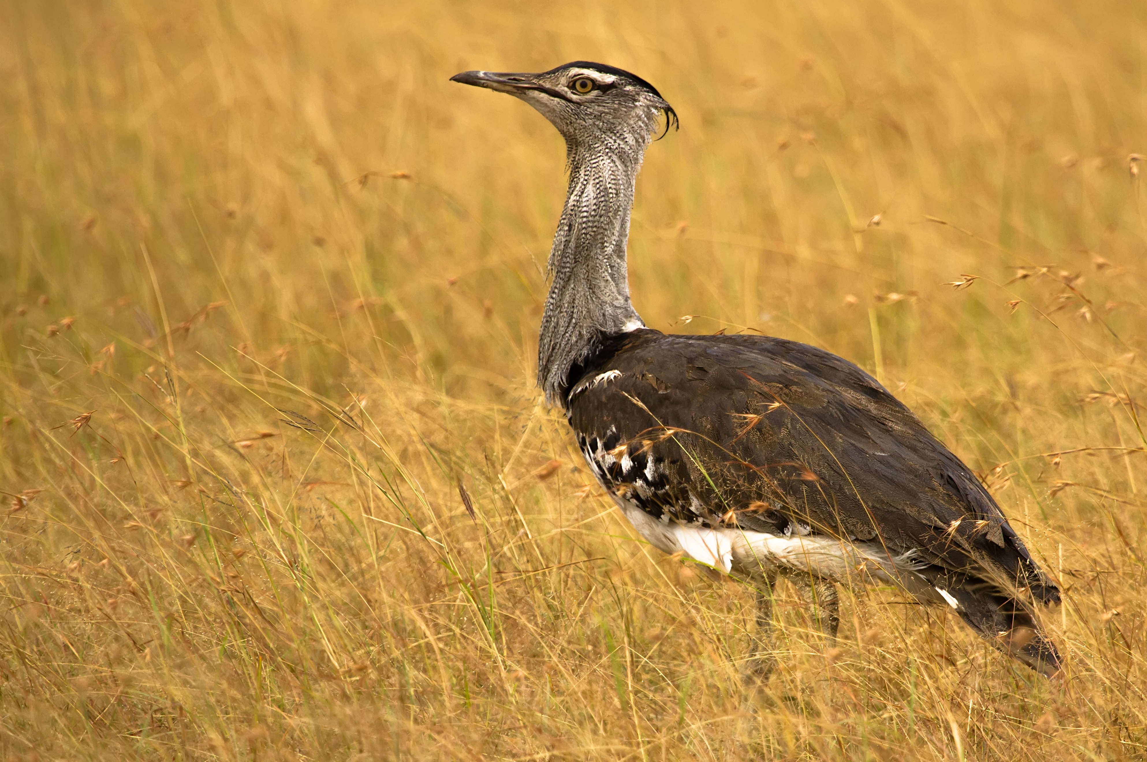 Individual at Maasai Mara, Kenya